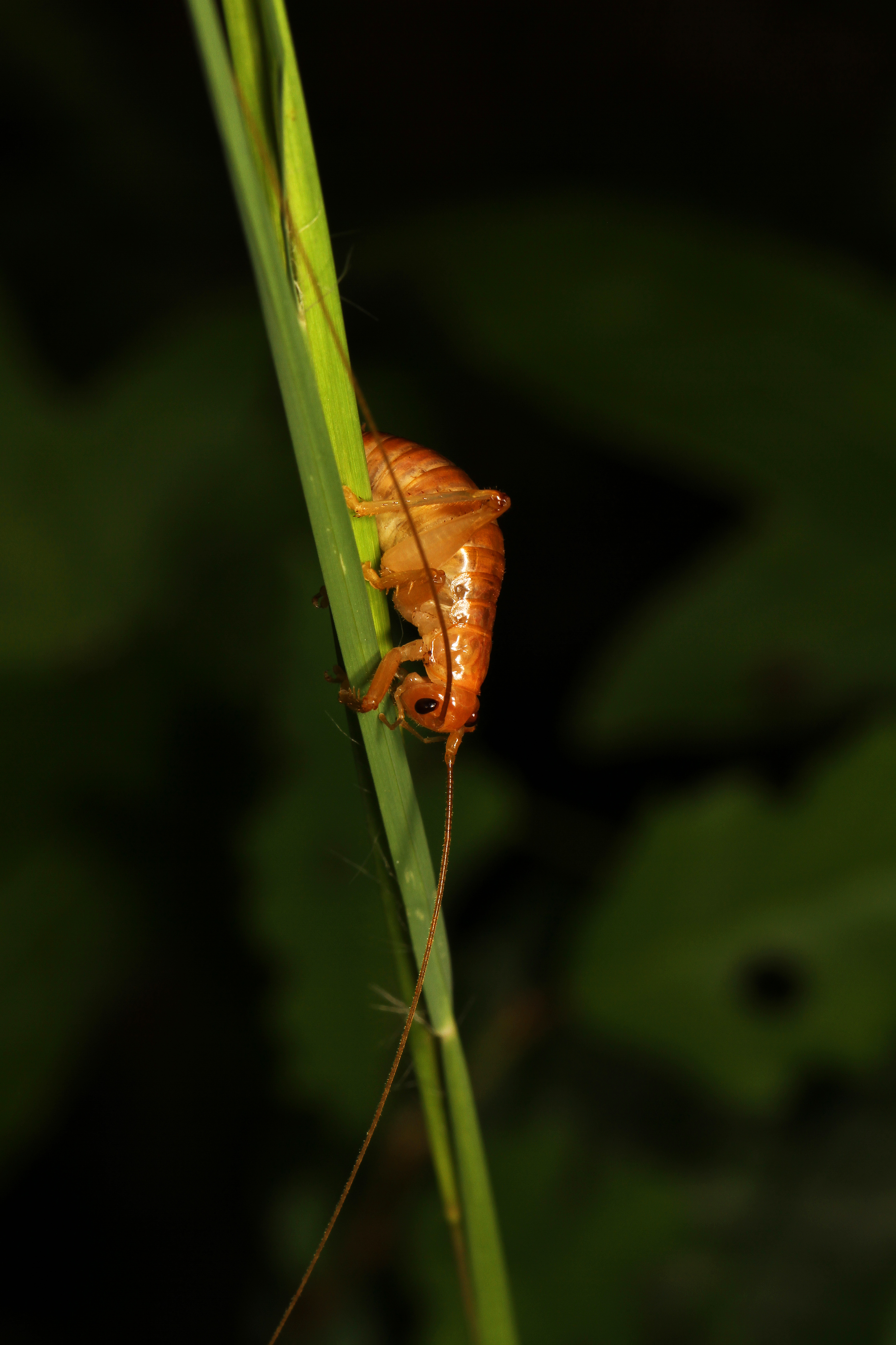 Carolina Leaf-roller - Camptonotus carolinensis, Leesylvania State Park, Woodbridge, Virginia. As their name implies, they spend a lot of time rolled up in leaves. They don't have wings.